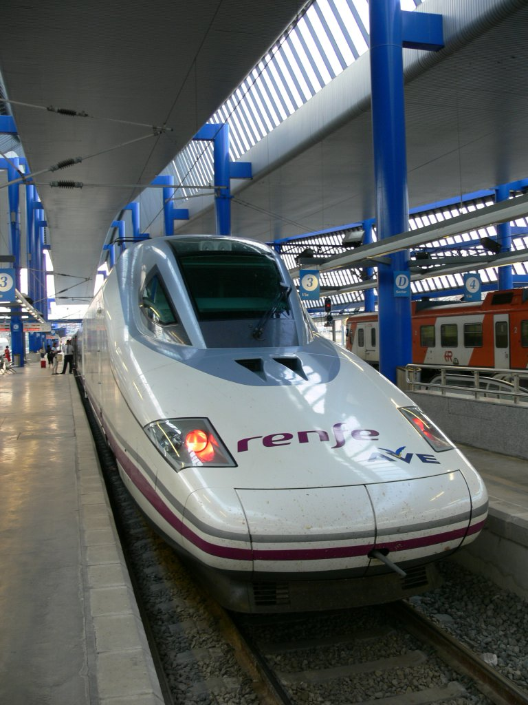 Talgo 350 train at Lleida Pirineus station. See also: Talgo.